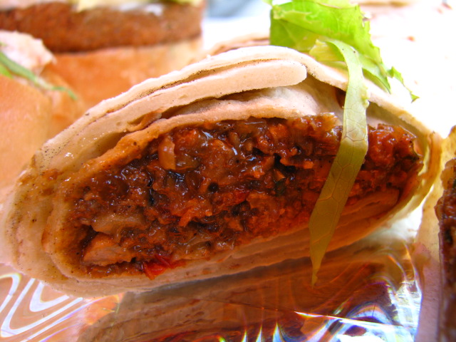 Kathi Roll